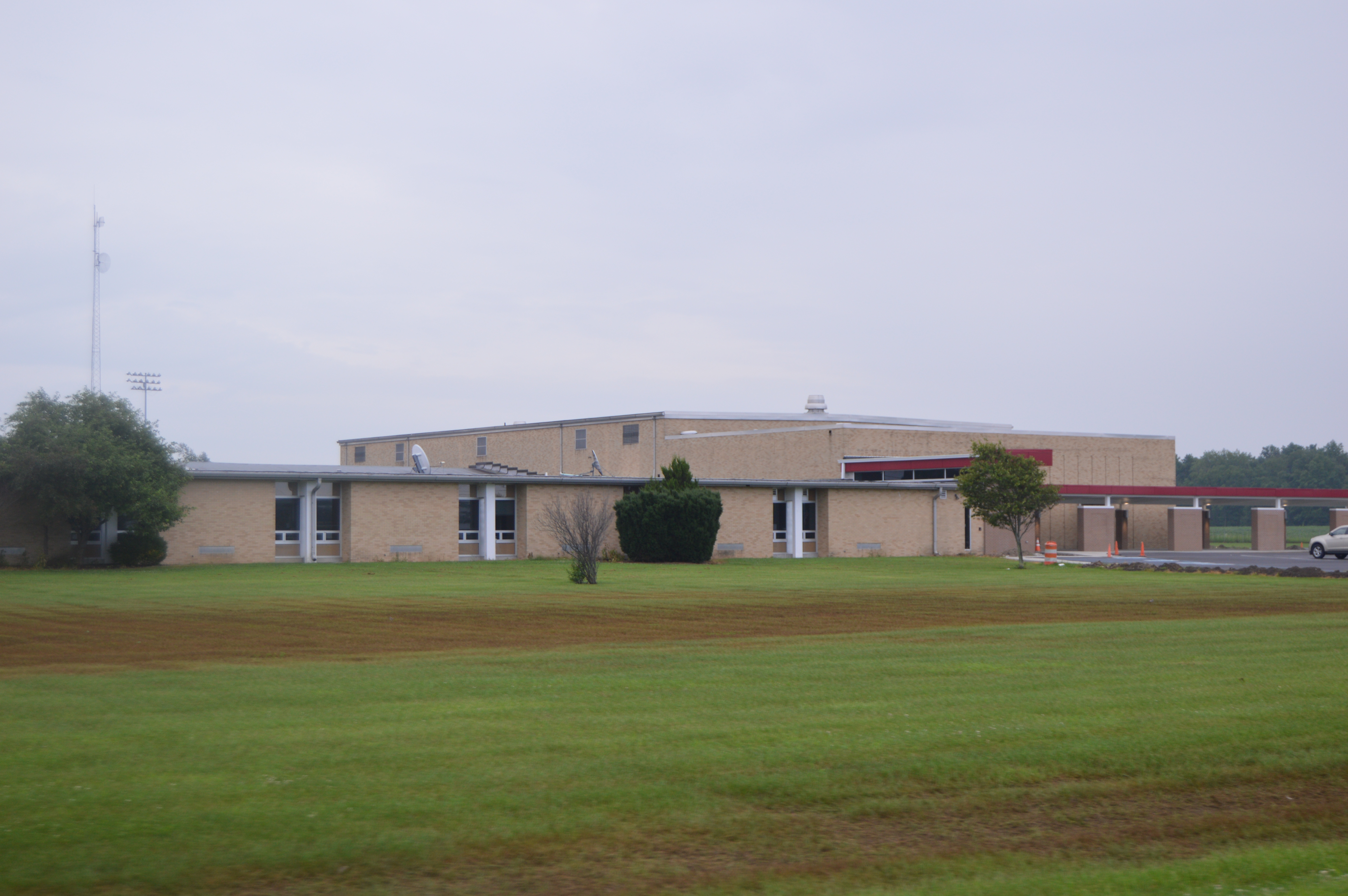 Roadside view of the front of Wes-Del Middle/High School, located at 10000 N600W northwest of Muncie in Harrison Township, Delaware County, Indiana, United States.